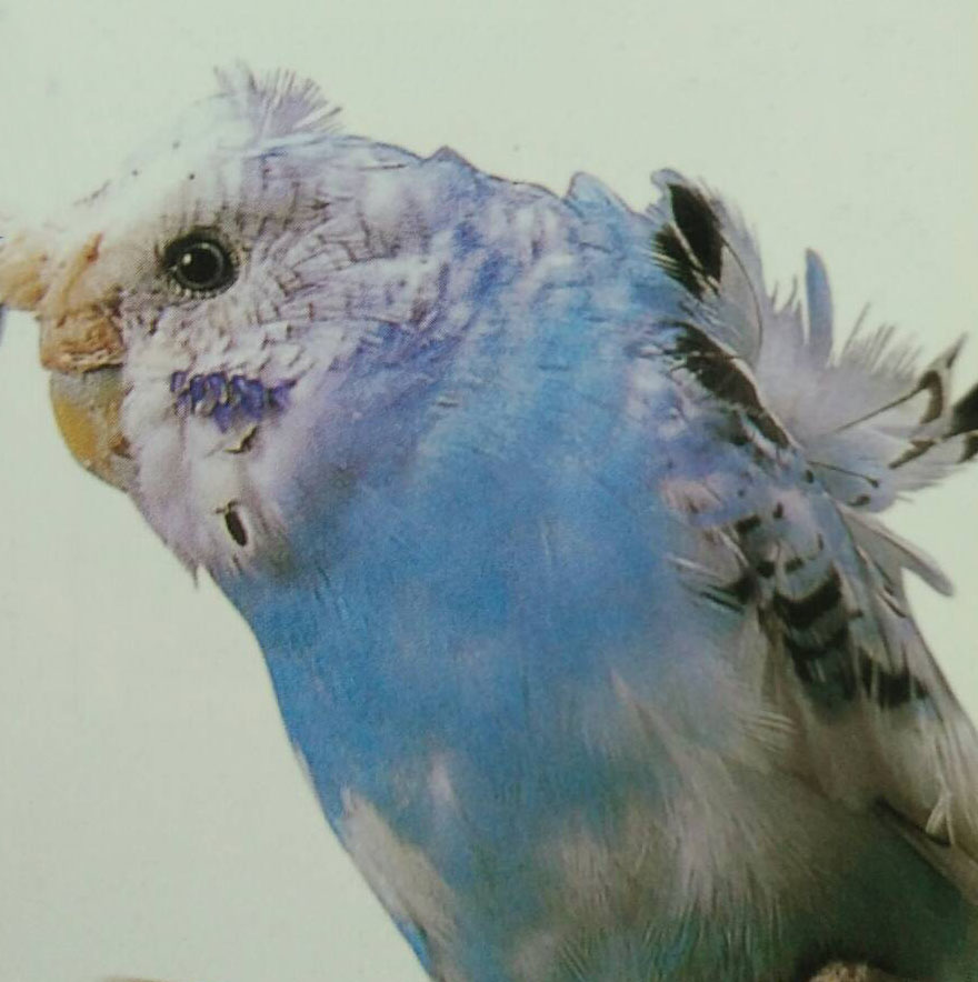 qu